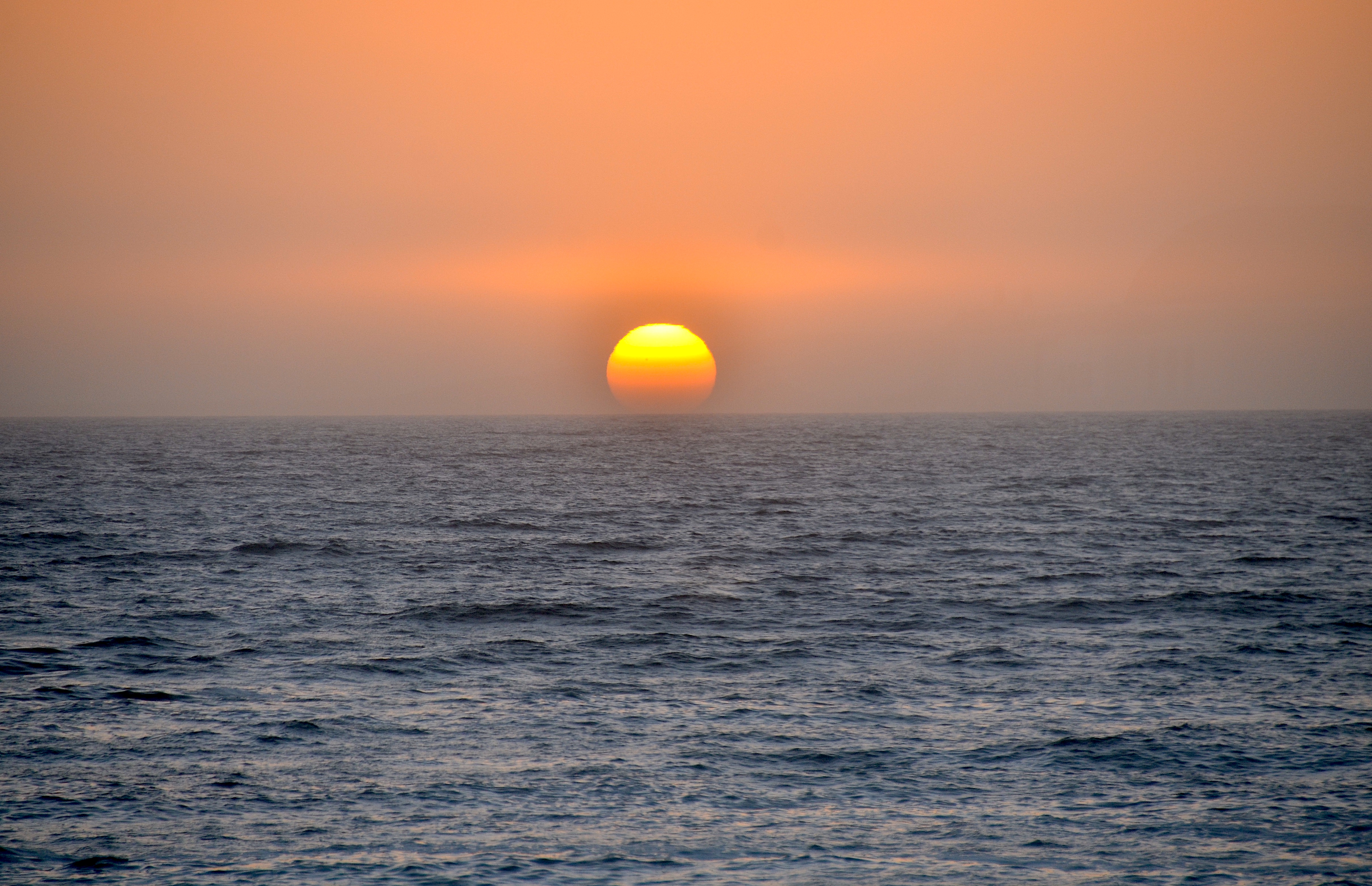 Sunset over the ocean in Namibia